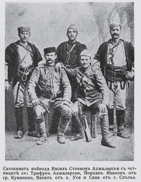 Cheta of Vasil Adzhalarski